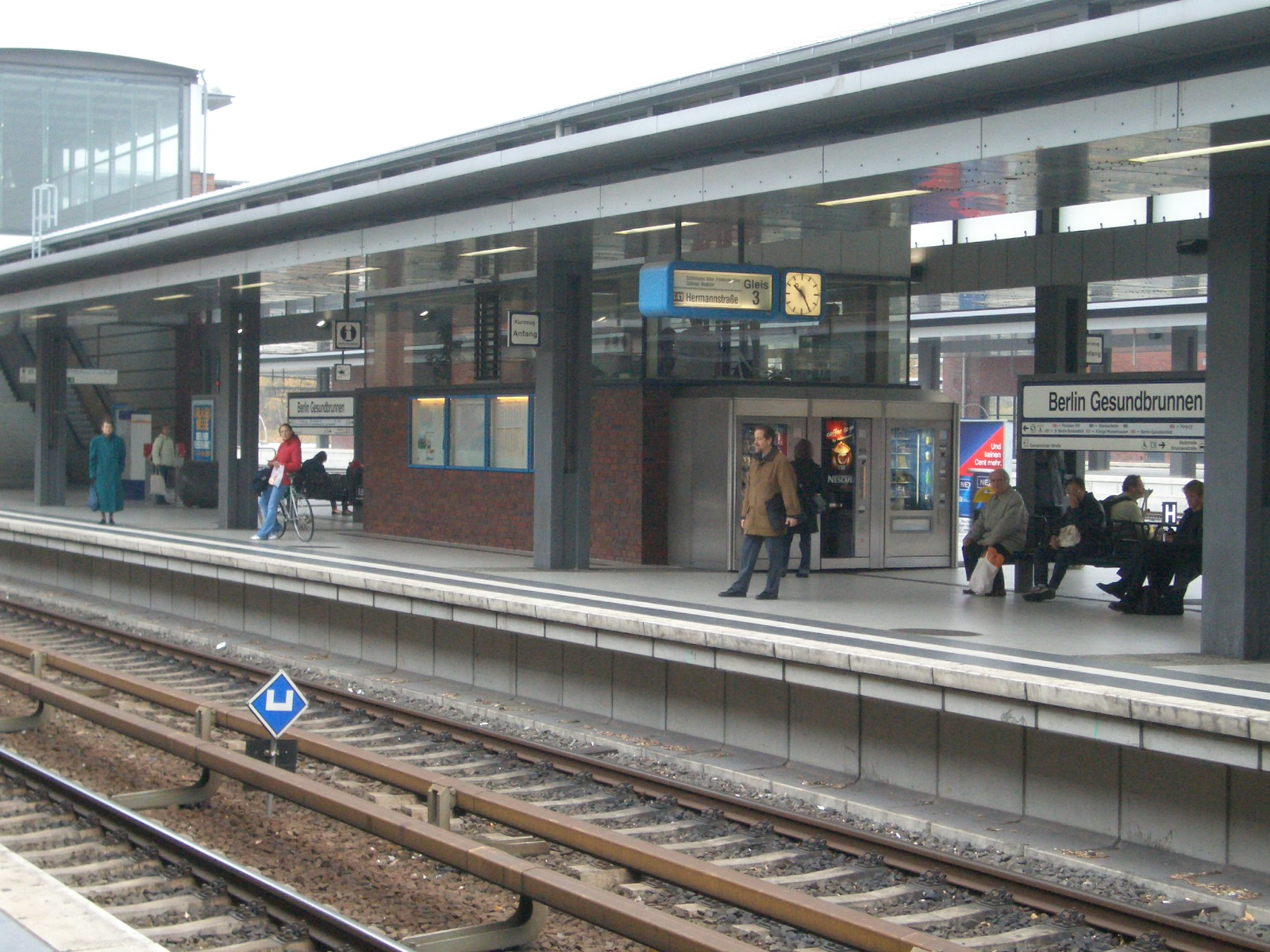 S-Bahn Berlin, station Gesundbrunnen